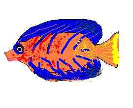 self-drawn draft of Ctenochaetus hawaiiensis fish in juvenile colouring